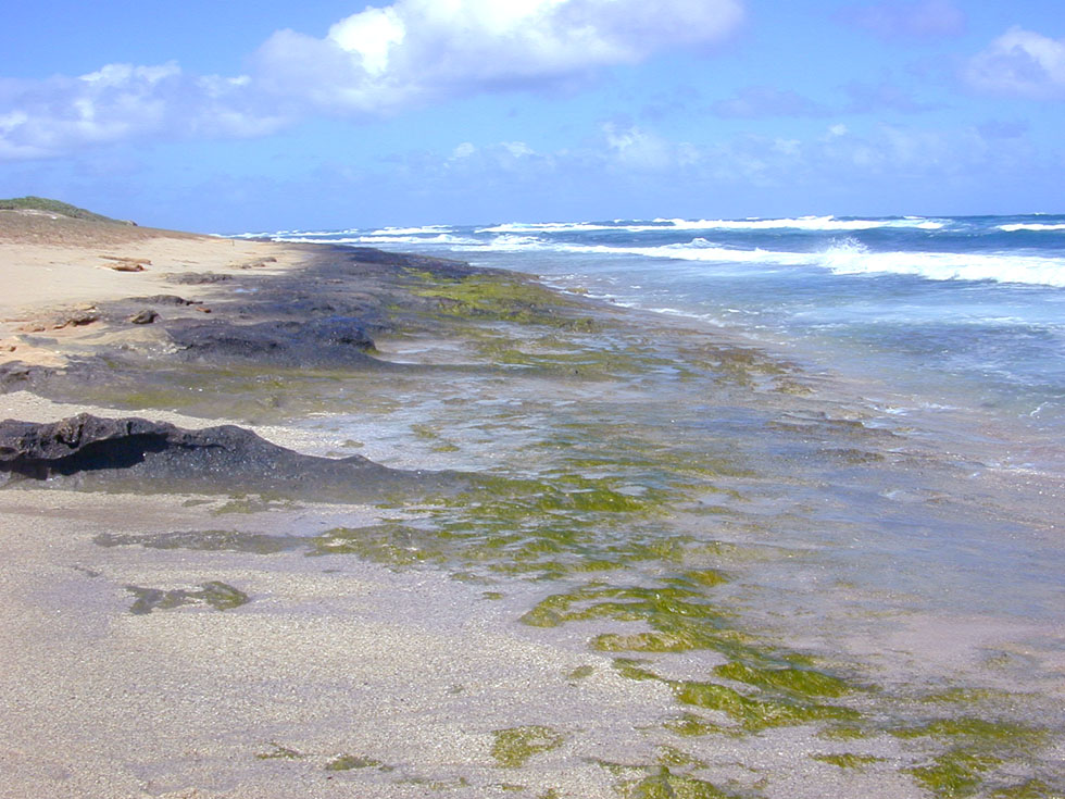 Photo of green algal growth (Enteromorpha sp.) on rocky areas of the ocean intertidal shore, indicating a nearby nutrient source (in this case land runoff). Photographed by Eric Guinther near Kahuku, O‘ahu, Hawai‘i.